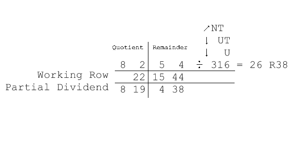 Setting up for division using the Trachtenberg system of division